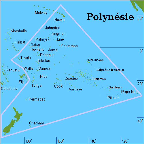 Polynesia